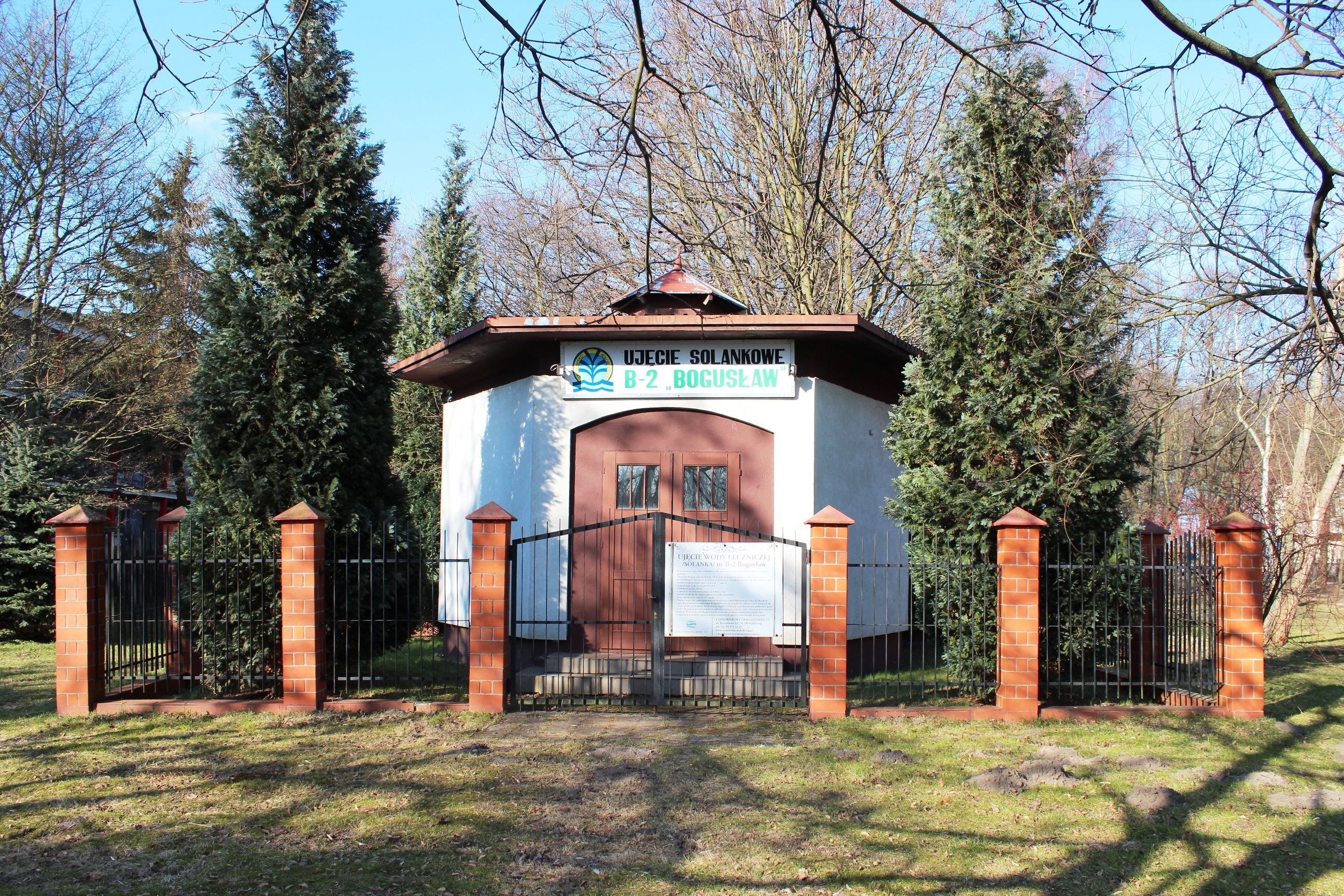 Brine well Bogusław in Kołobrzeg